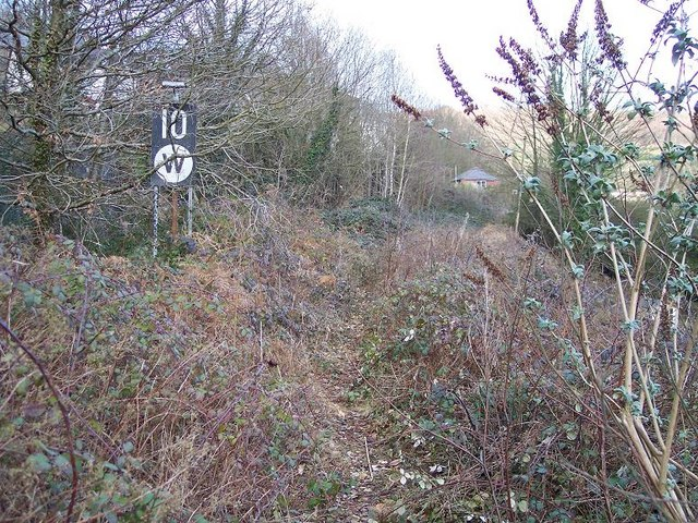 Overgrown railway trackbed approaching the site of Pantyresk level crossing at West End in Ebbw Vale. A private plateway built by Benjamin Hall* was opened about 1811 from the Monmouthshire Canal at Risca up to Manmoel Colliery (in the Upper Sirhowy Valley). The Great Western Railway leased it in 1877 and converted the section in the Sirhowy Valley to standard gauge. The Ebbw Vale section was also converted to standard gauge but not until 1912. Most of the line survived until 1991 to serve Oakdale Colliery, by which time it was one of the oldest lines to remain in use. Hall's son, also named Benjamin, designed the clock tower at the Houses of Parliament and gave his name to the bell, 'Big Ben.'